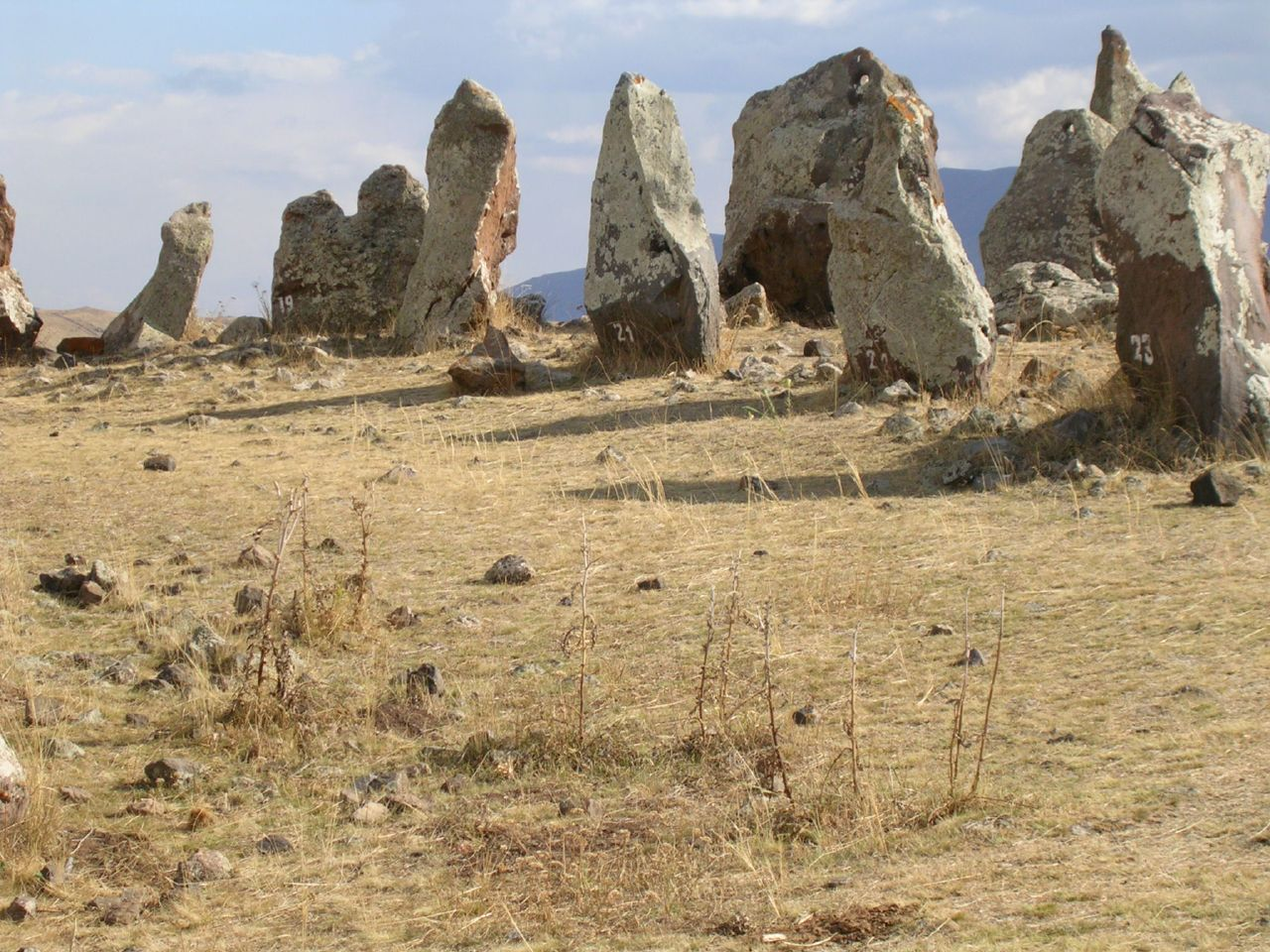 Zorats Karer